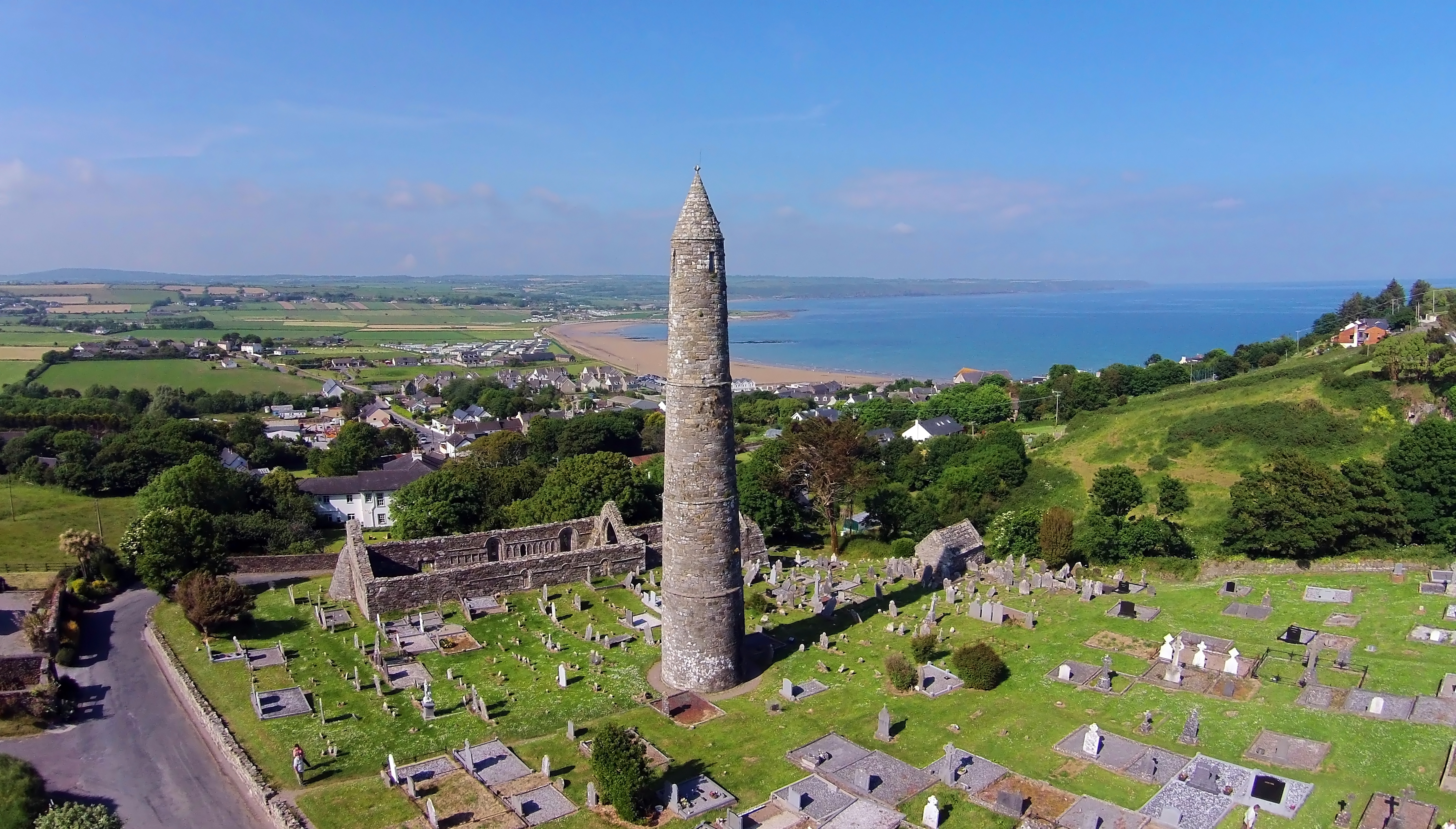 Ardmore Cathedral, Round Tower